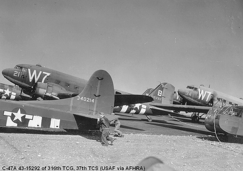 C-47s with CG-4 Waco Gliders just before D-Day, 1944, 316th Troop Carrier Group, 37th TCS